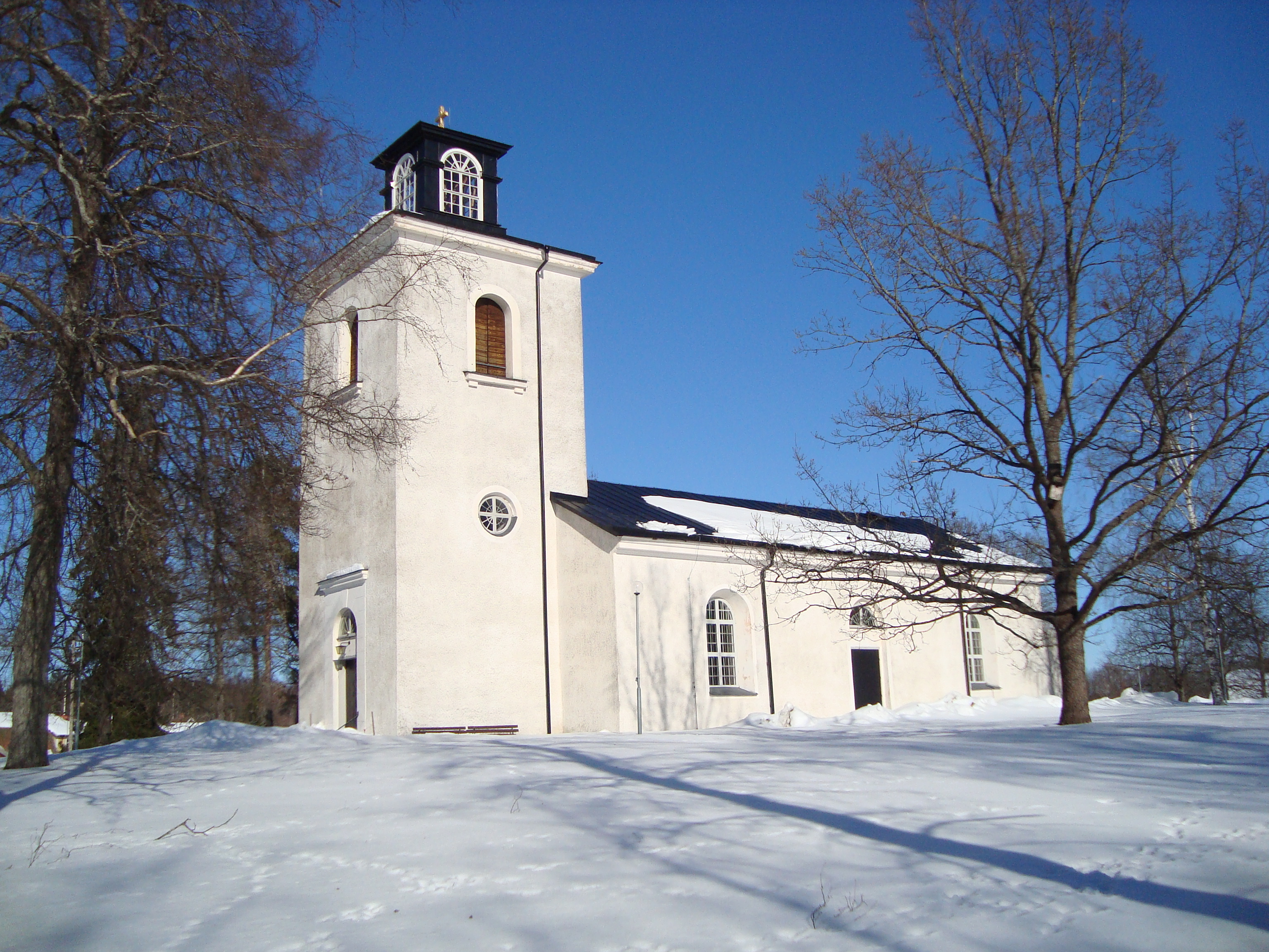 Sevalla, Västerås Municipality and -Diocese, Sweden